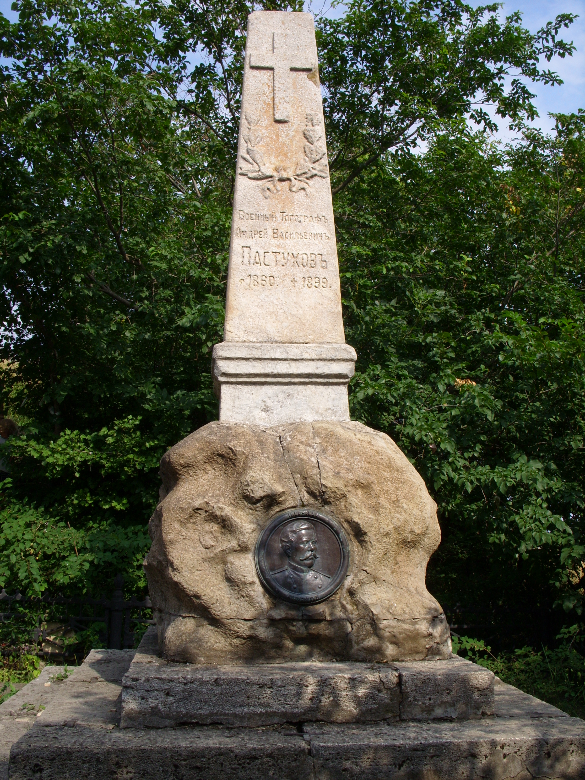 Andrey Pastukhov, Russian mountain climber and scientist.